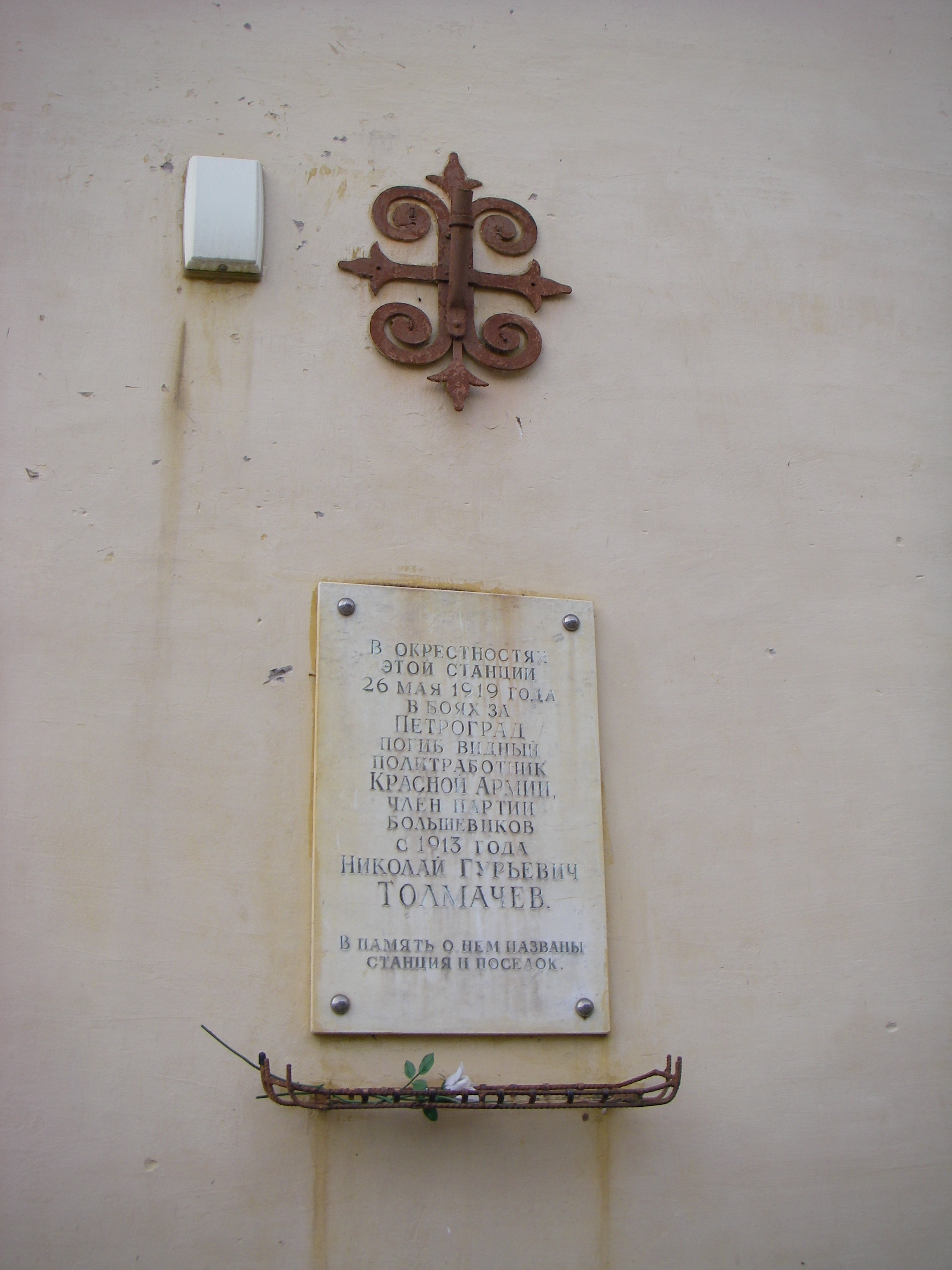 Commemorative plaque in Tolmachyovo